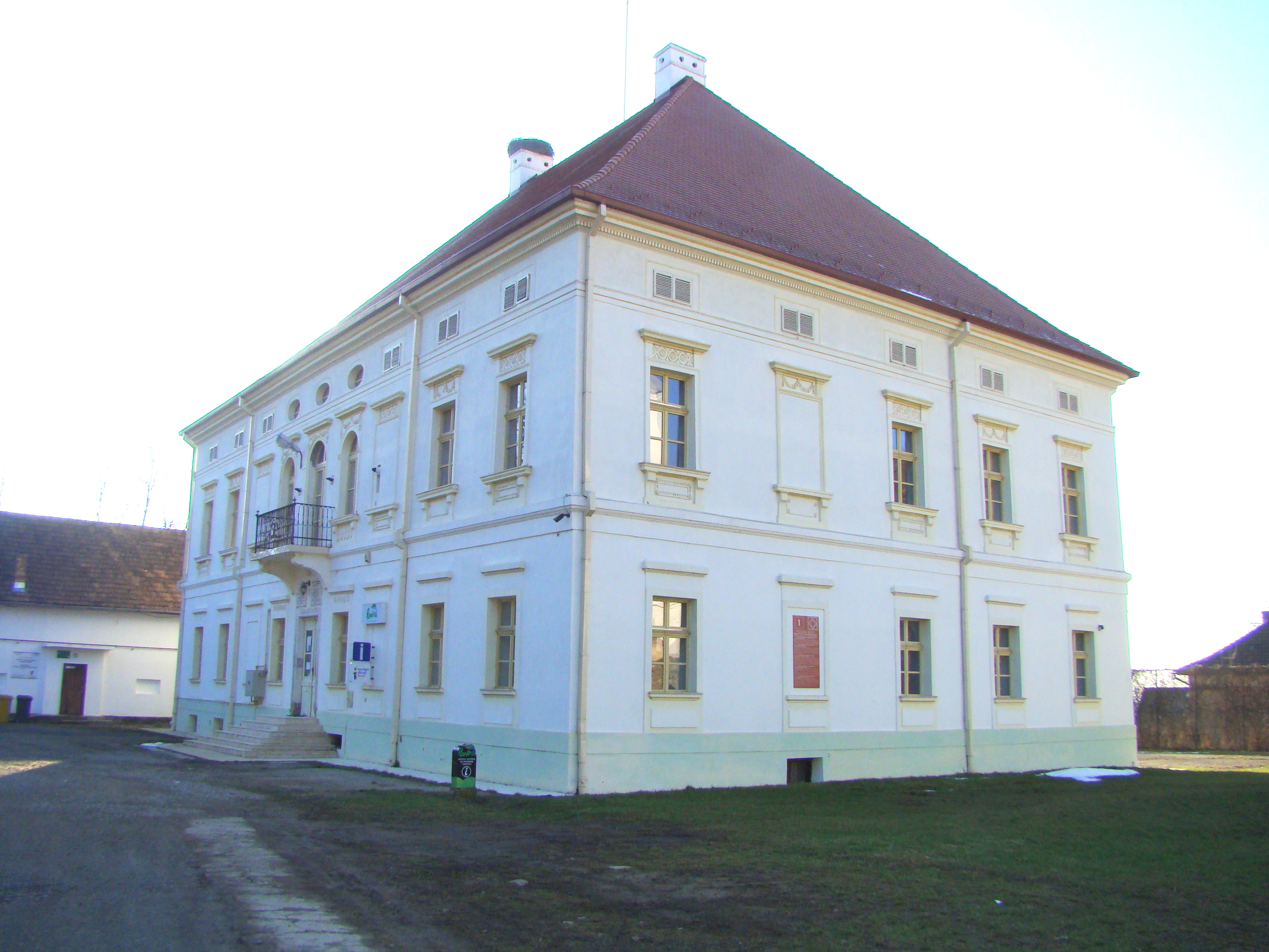 The Rhédey castle in Sângeorgiu de Pădure, Mureş county, Romania